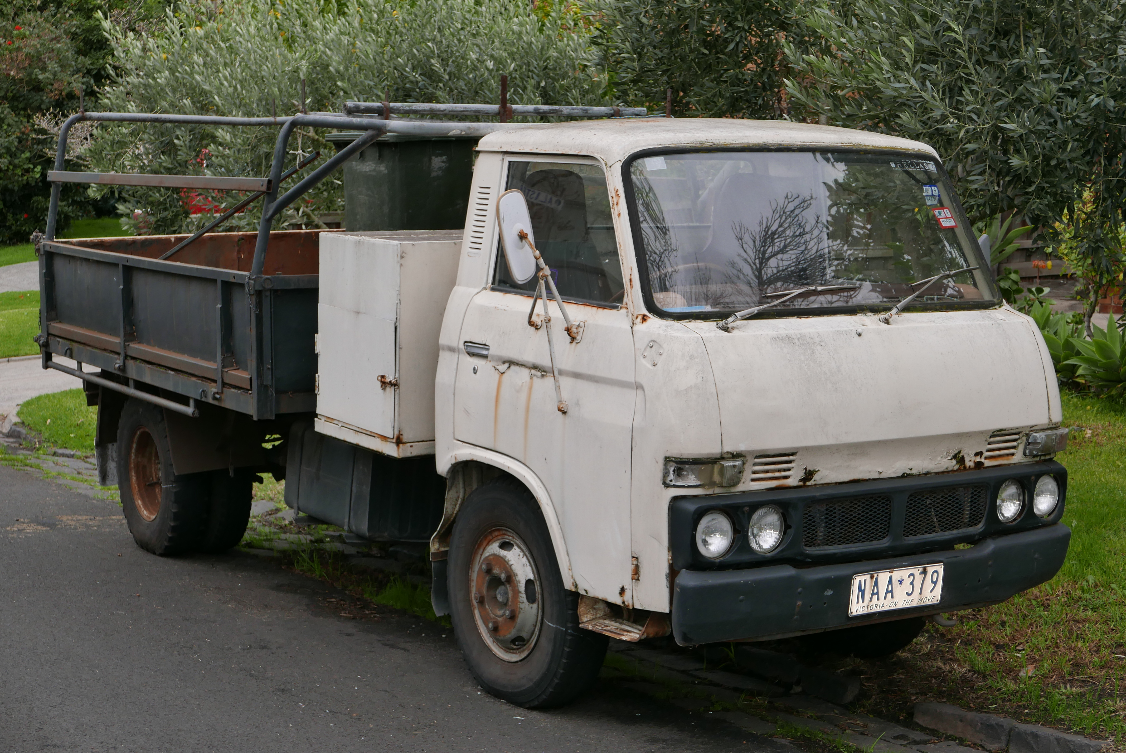 1981 Nissan Caball (C340) truck. Photographed in Fitzroy North, Victoria, Australia. Vehicle registration enquiry results Jurisdiction Victoria Registration NAA379 Chassis code Not available Engine code H20973649 Compliance date Not available Year of manufacture 1981